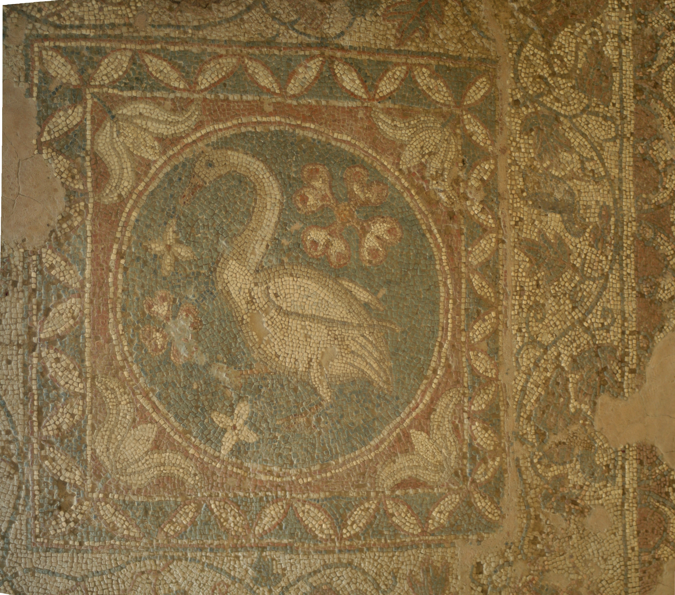 Swan Mosaic at the Ancient City of Soli